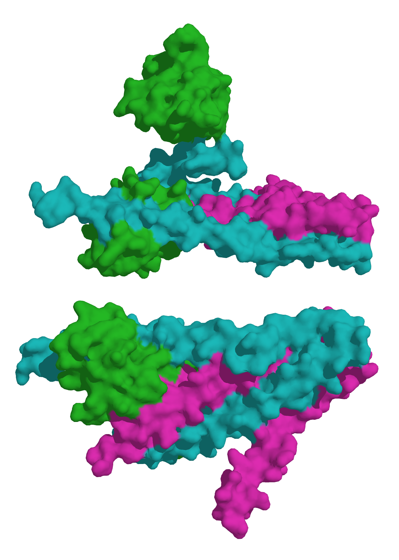 3d surface model (from two sides) of skeletal troponin complex in Ca free state (troponin T purple, I cyan, C green) from PDB 1YV0. Ref.: Vinogradova, M.V., Stone, D.B., Malanina, G.G., Karatzaferi, C., Cooke, R., Mendelson, R.A., Fletterick, R.J. (2005) Ca2+-regulated structural changes in troponin Proc.Natl.Acad.Sci.USA 102: 5038-5043 PMID 15784741